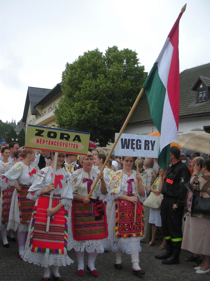 The ZORA Folkdancegroup of Mohács